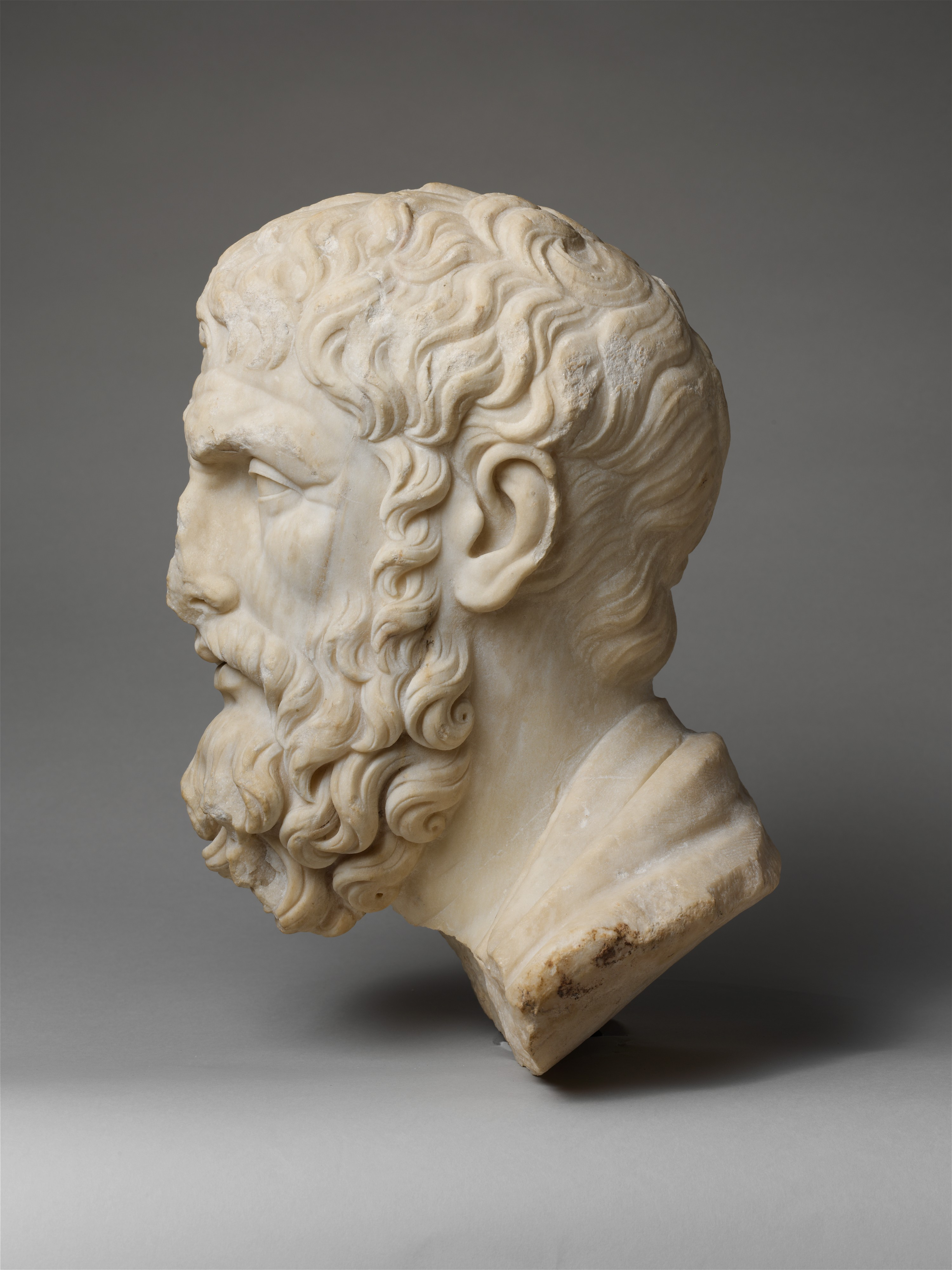 Roman; Portrait head of Epicurus; Stone Sculpture